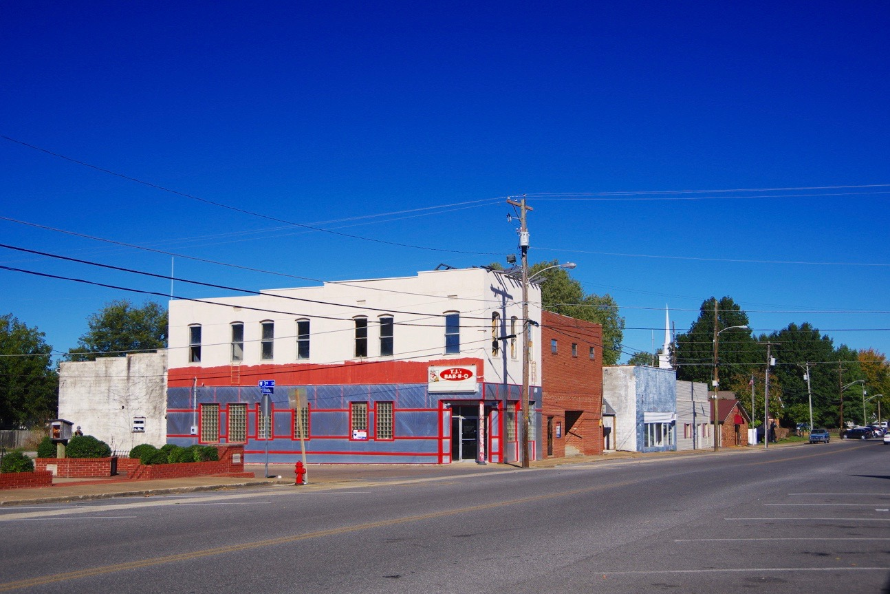 Businesses along Broadway (Kentucky Route 358) in LaCenter, Kentucky, United States.